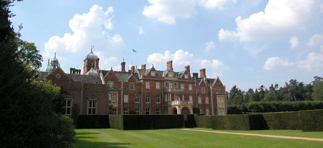 Sandringham House in Sandringham, Norfolk, western aspect